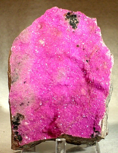 Dolomite (Var.: Cobaltoan Dolomite) Locality: Kolwezi Mine, Kolwezi, Western area, Katanga Copper Crescent, Katanga (Shaba), Democratic Republic of Congo (Zaïre) (Locality at ) The display face of this large specimen is completely covered with a druse of shocking pink cobaltian dolomite. 11 x 8 x 4.3 cm